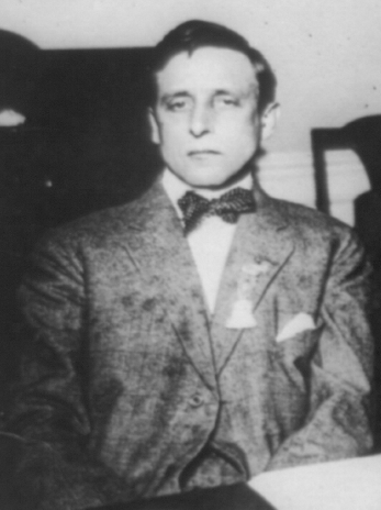 National League president Harry Clay Pulliam. Photo heavily cropped from original to single out Pulliam.